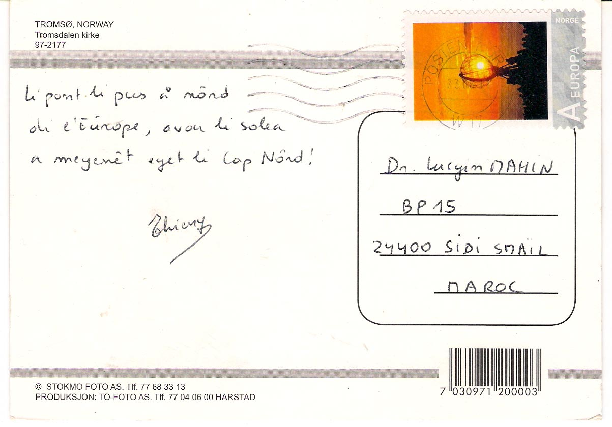 Postcard from Norway, written in Walloon Walon: Cwåte poståle di Norvedje evoyeye å Marok, et scrîte e walon